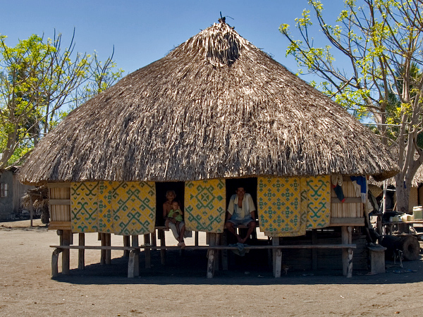 Traditional house in Suai Loro/East Timor